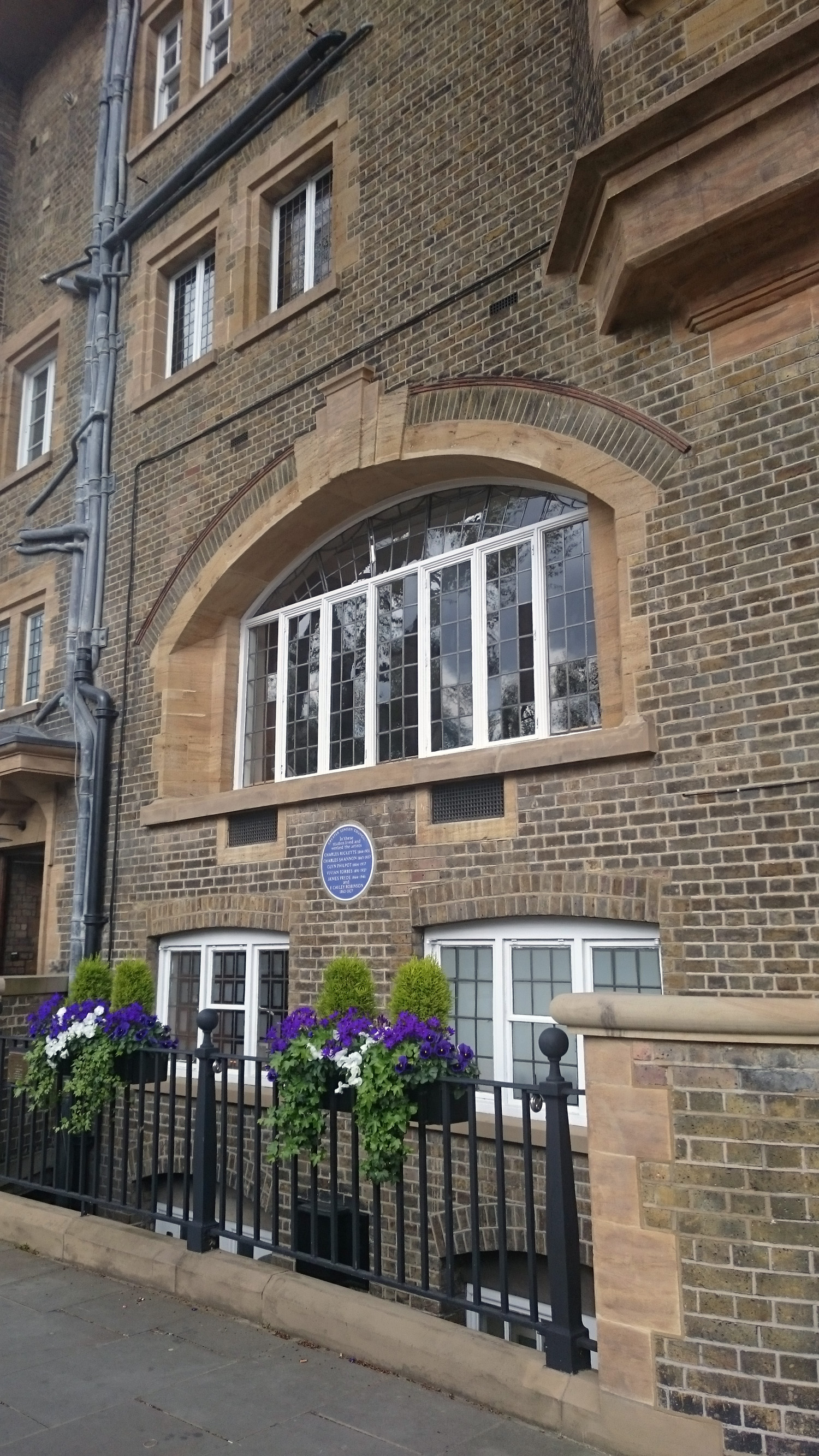 In these studios lived and worked the artists CHARLES RICKETTS 1866-1931 CHARLES SHANNON 1863-1937 GLYN PHILPOT 1863-1937 VIVIAN FORBES 1891-1937 JAMES PRYDE 1866-1941 and F.CAYLEY ROBINSON 1862-1927